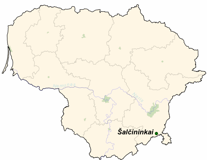 Šalčininkai on the map of Lithuania